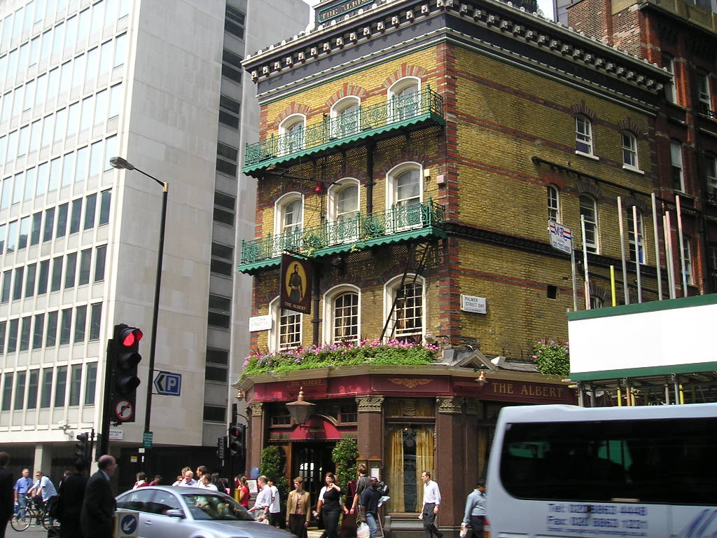 The Albert, Victoria Street, London